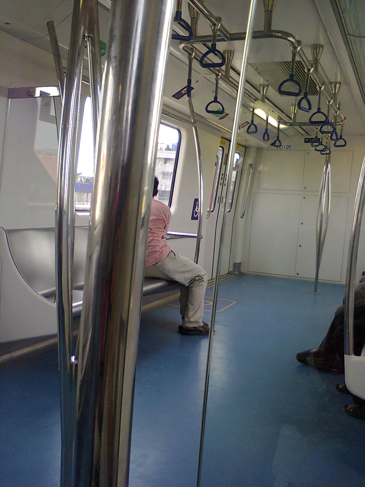 Interior of Namma Metro coach. Picture taken by Faiz Haider, using Nokia C2-03 phone on Saturday, May 19, 2012, 3:03:04 PM.